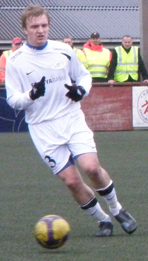 Kristoffur Jakobsen is a Faroese football player, midfielder/forwarder. He used to play for KÍ Klaksvík, but in 2010 he transferred to EB/Streymur. He also plays for the Faroe Islands U21 national team, nine matches and two goals so far (August 2010). This photo was taken on 25 April 2010 in a match against FC Suðuroy in Vágur, it was the quarter final in the Faroe Islands Cup 2010. EB/Streymur won the match 4-1. Føroyskt: Kristoffur Jakobsen er føroyskur fótbóltsleikari. Fyrstu árini í vaksnamanna fótbólti spældi hann við KÍ, men eftir at KÍ rykti niður í 1. deild, fór Kristoffur at spæla við EB/Streymi í Vodafonedeildini. Kristoffur spælir sum miðvallaleikari ella sum áleypari. Hann spælir eisini fyri Føroyar á U21 landsliðnum og hevur spælt ein dyst á føroyska A-landsliðnum. Henda myndin varð tikin vesturi á Eiðinum í Vági í fjórðingsfinalu dysti um Løgmanssteypið. Dysturin var móti FC Suðuroy. EB/Streymur vann dystin 4-1.